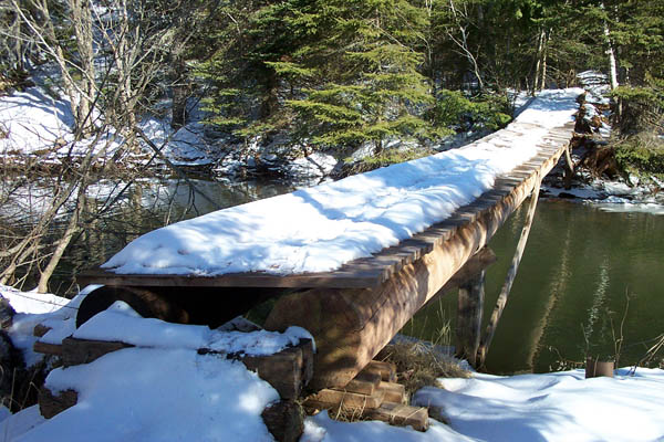 February 25, 2007